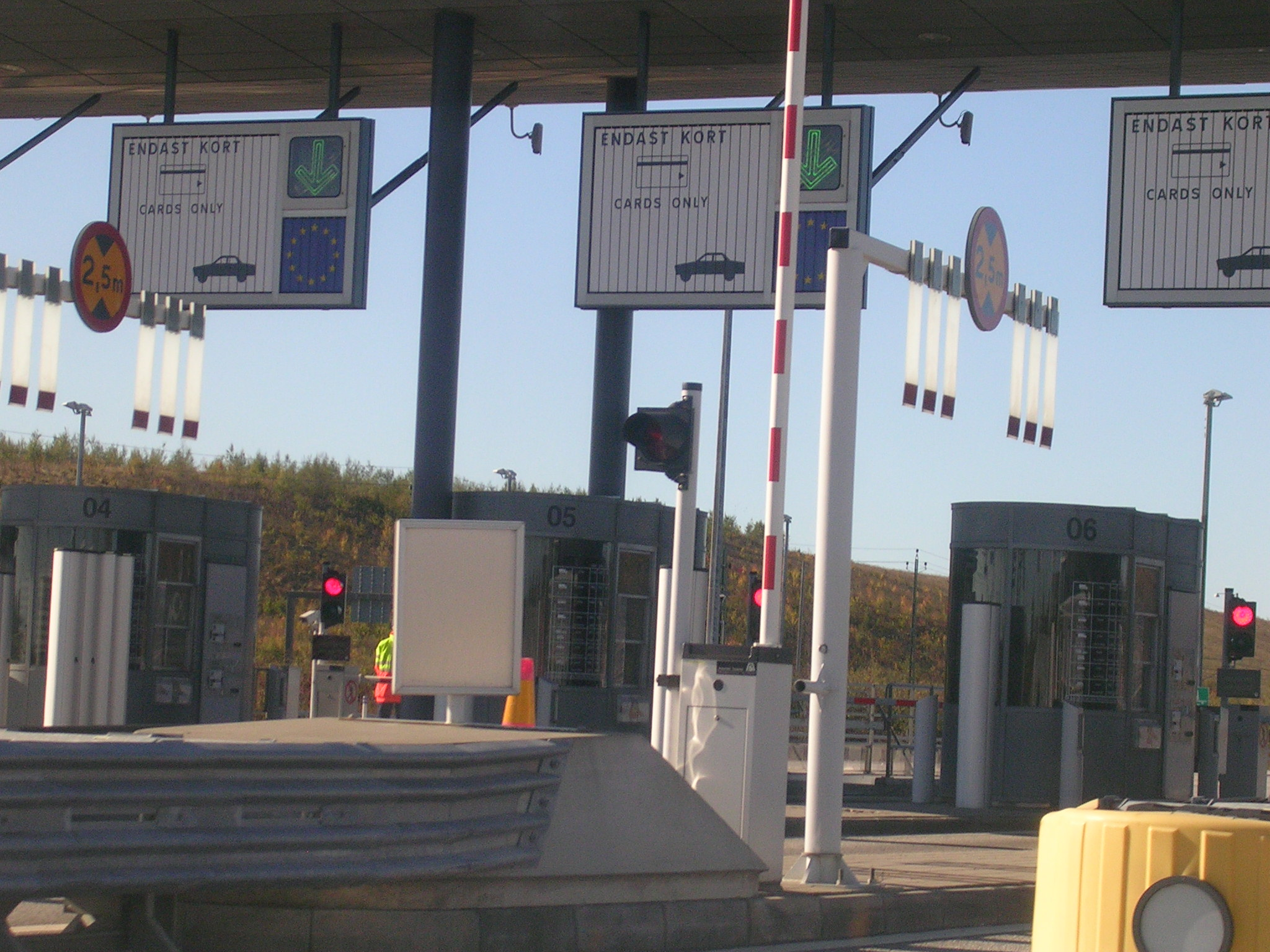 Pay stations on the Øresund bridge Author: Väsk